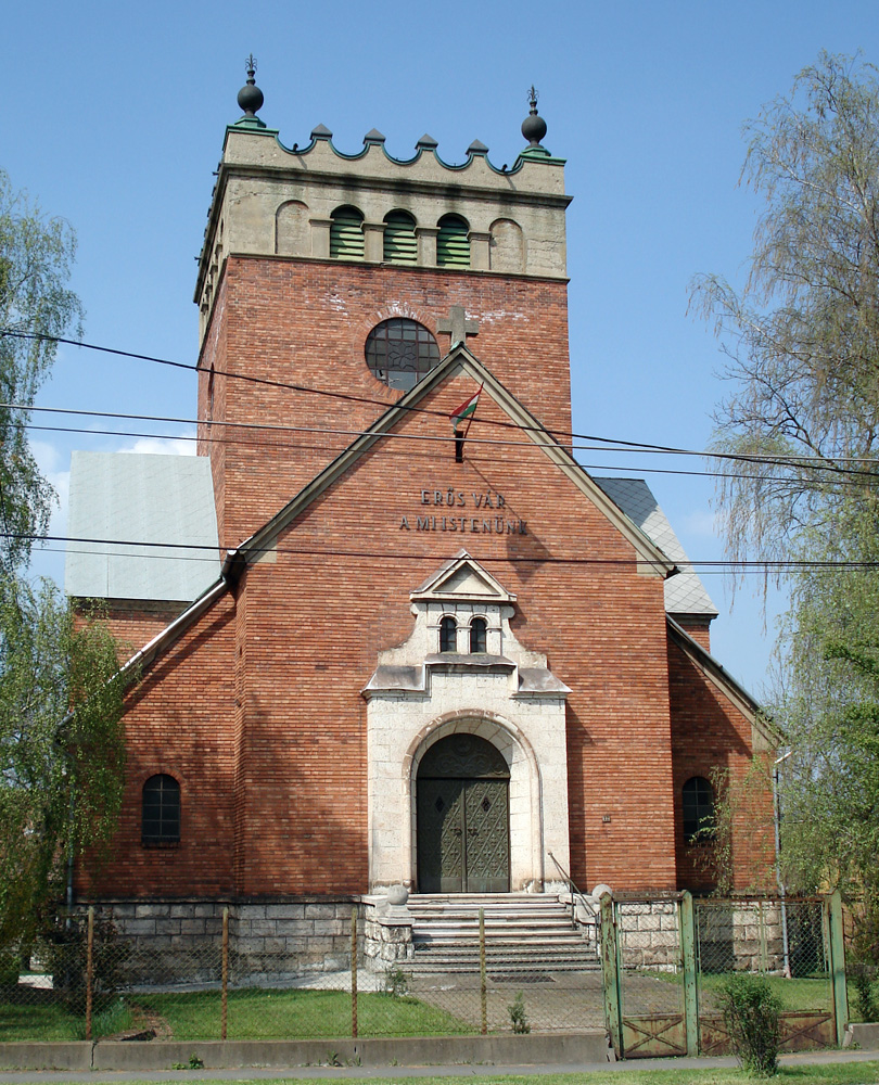 Vasgyár Lutheran Church, Miskolc, Hungary